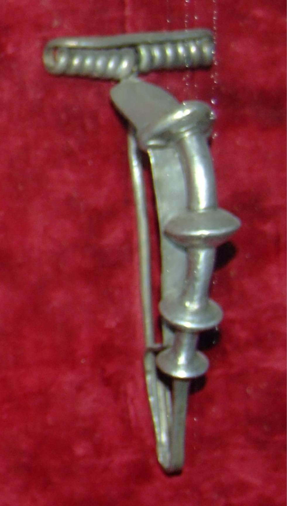 Dacian Bracelet in Cluj Museum. It is dated 1st century BC Latene geto-dacic 'Geto-Dacian La Tene'. Silver 358 grams. Flattened end decorated with palmettes . Palmettes with fir-tree motif and incized circles. The zoomorphic head probably depicts a snake head [1]